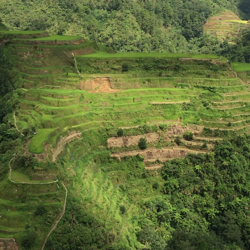 View of the Banaue Rice Terraces.